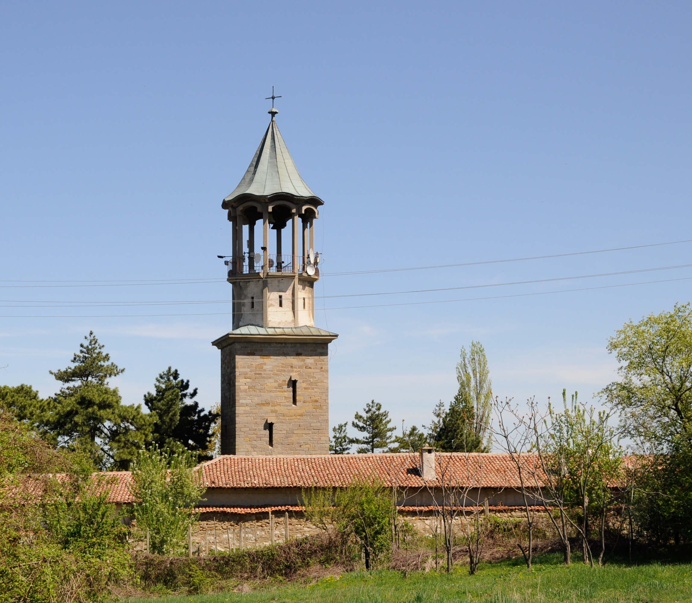 The belfry of the Saints Peter and Paul monastery also known as Lyaskovets monastery or Petropavlovski monastery near the town of Lyaskovets, Bulgaria.